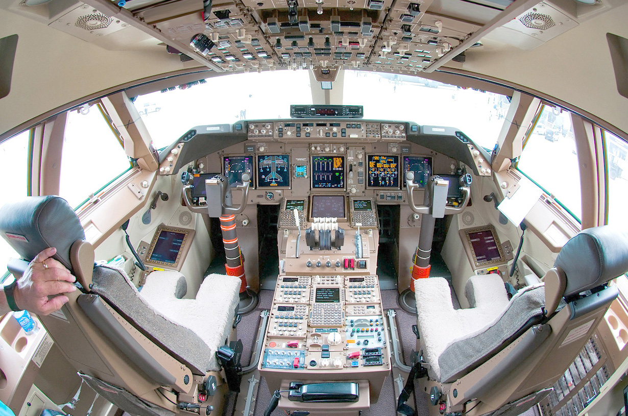 N6067E (cn 38636/1434) First picture of cockpit this boeing B-748. Paris Air Show 2011